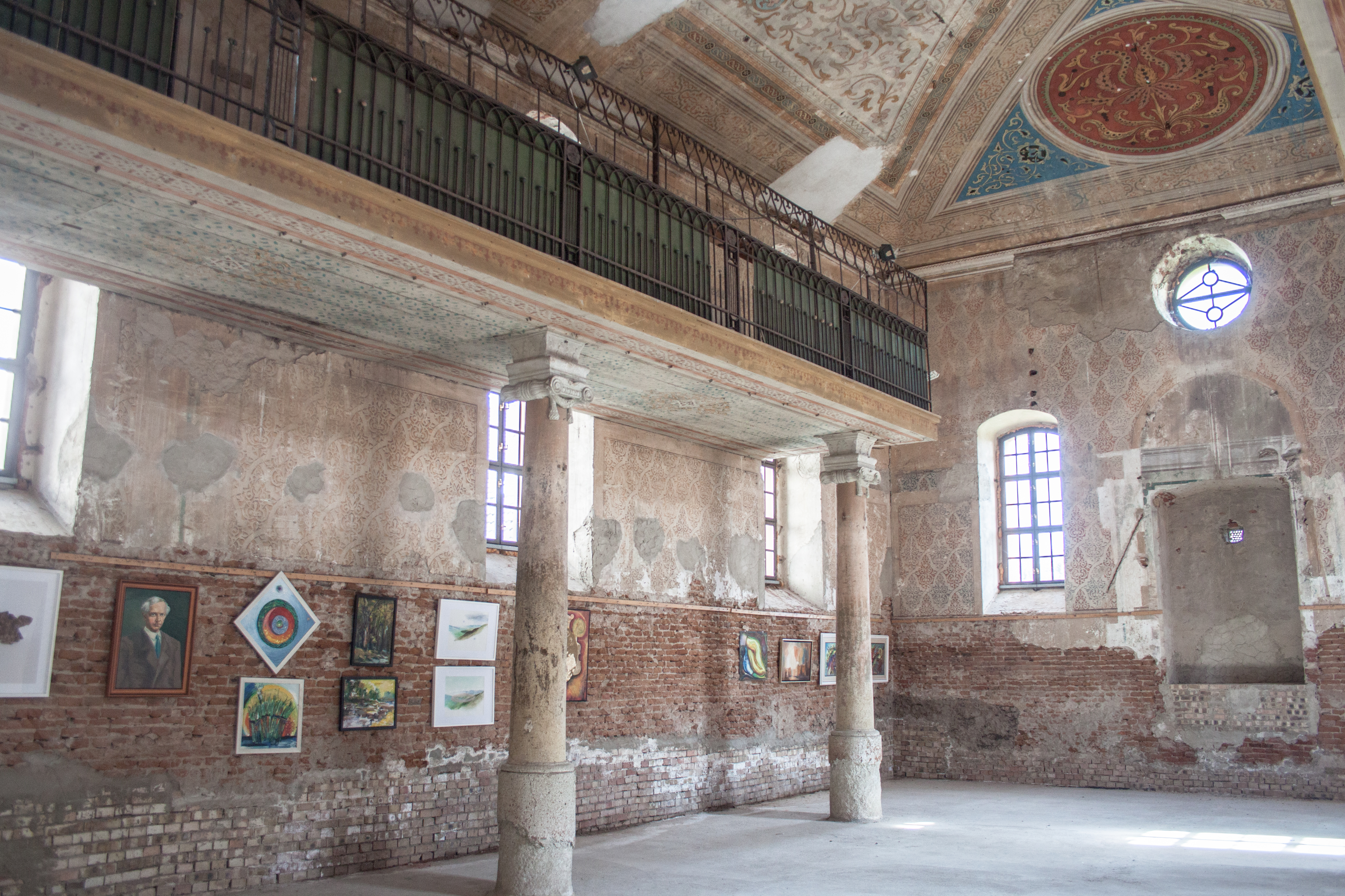 Interior of the Synagogue in Mátészalka